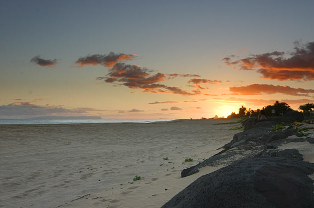 Sunset at Kekaha Beach, Kauai, Hawaii